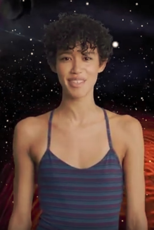 American model Dilone appearing in a Love magazine video. How long can Dilone hold a plank for? What's overrated? We go all the way to Space to find out...